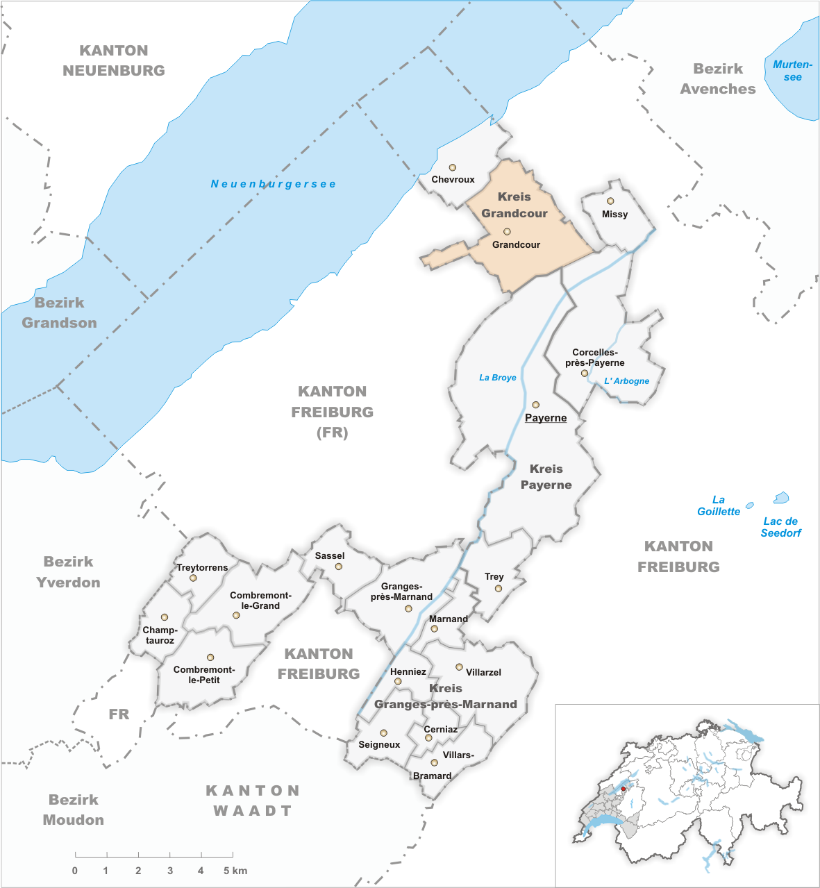 Municipality Grandcour